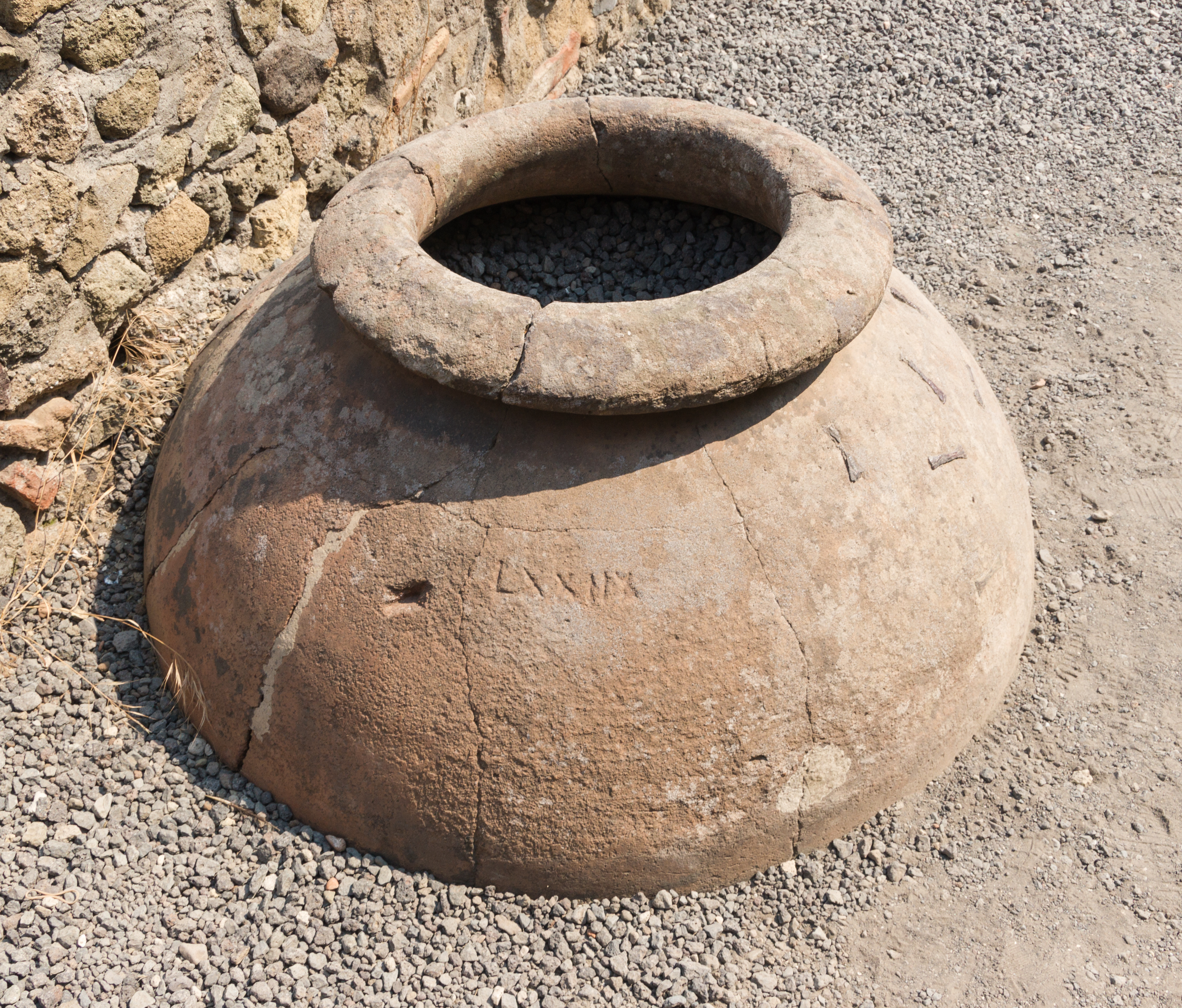 An ancient roman terracotta jar in Herculaneum, Italy